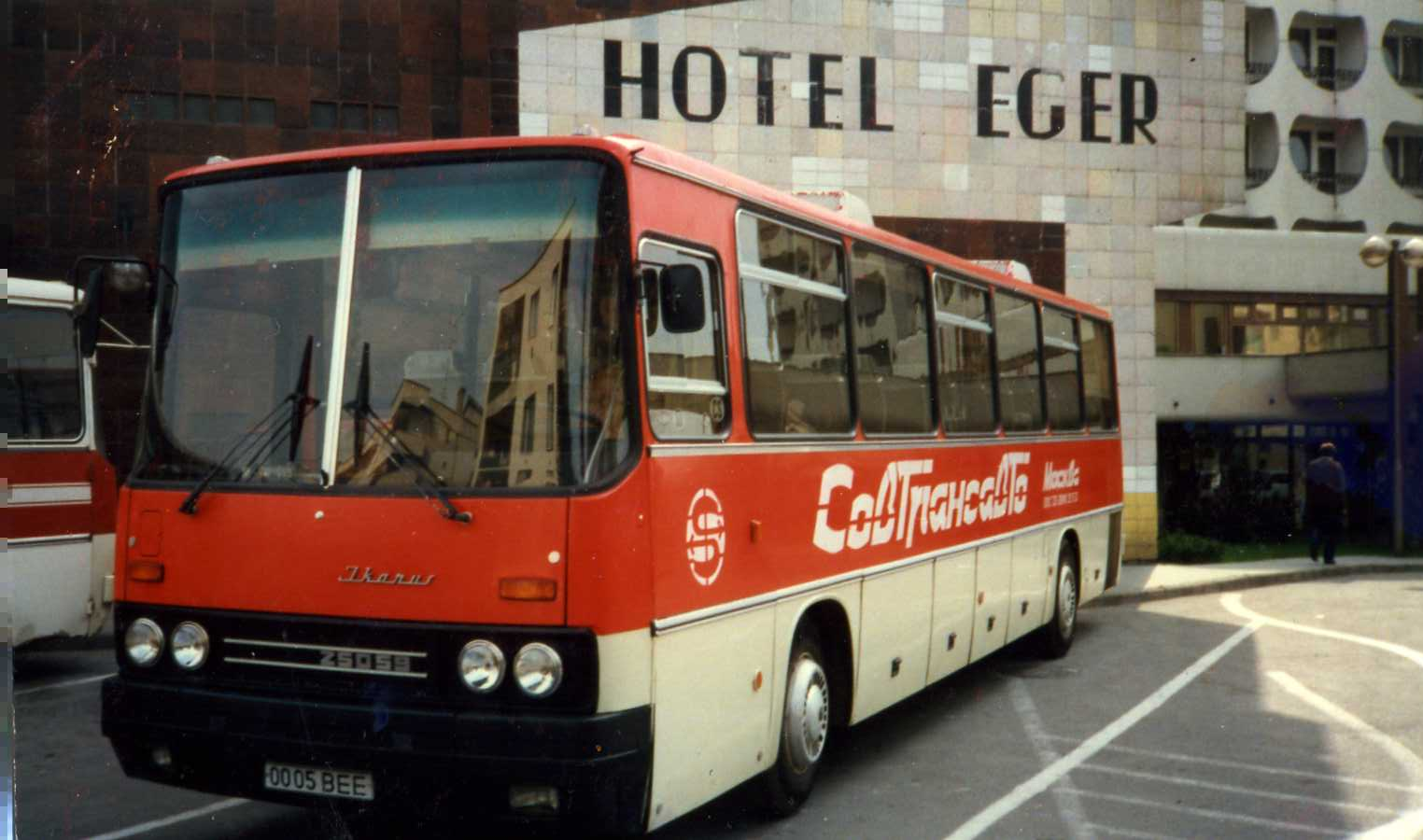 Registration most likely for a Ukrainian based vehicle in International service. Compare here Sovtransavto is still in business, despite its old style name, based in Moscow.